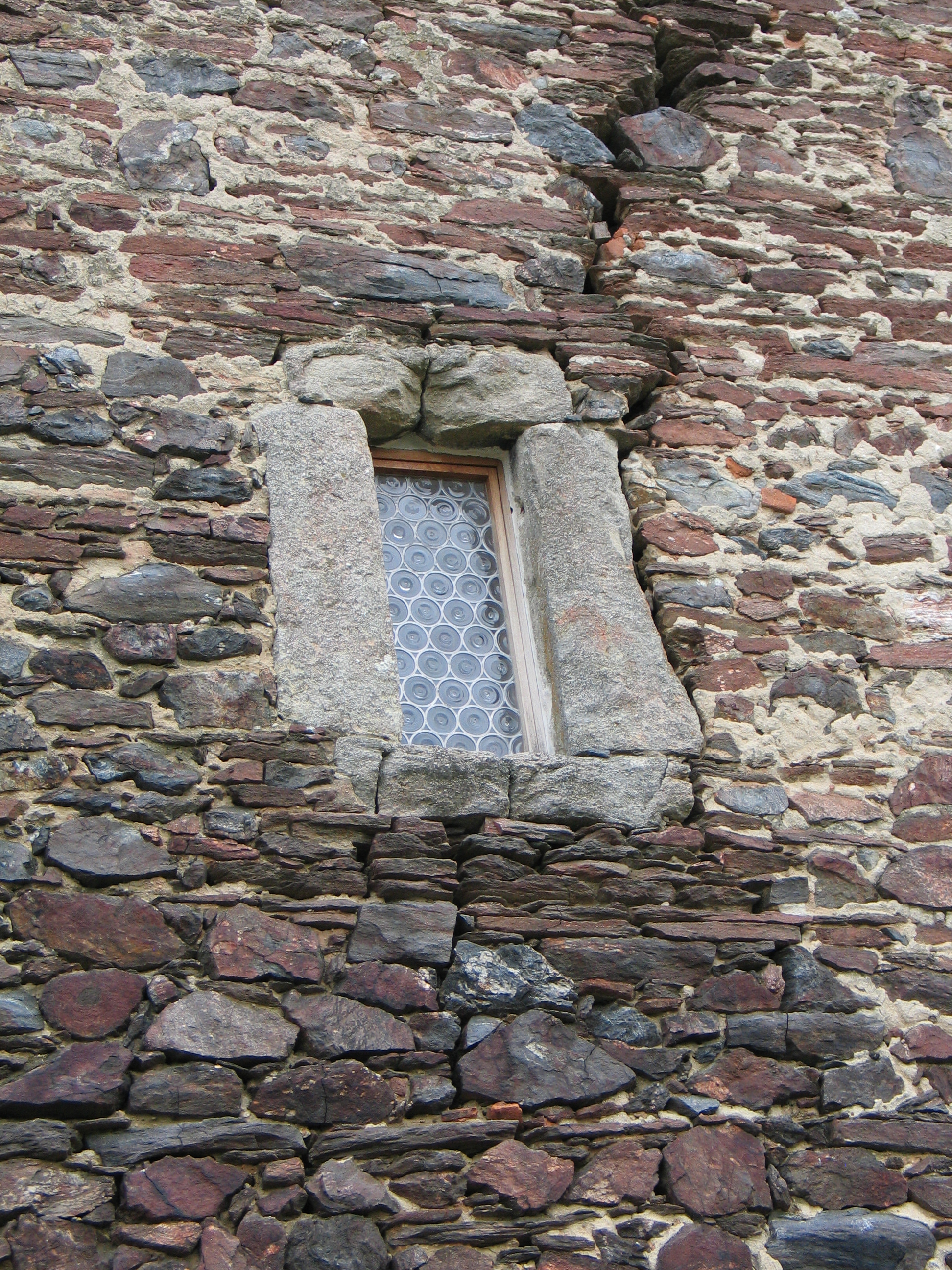 Gothic window